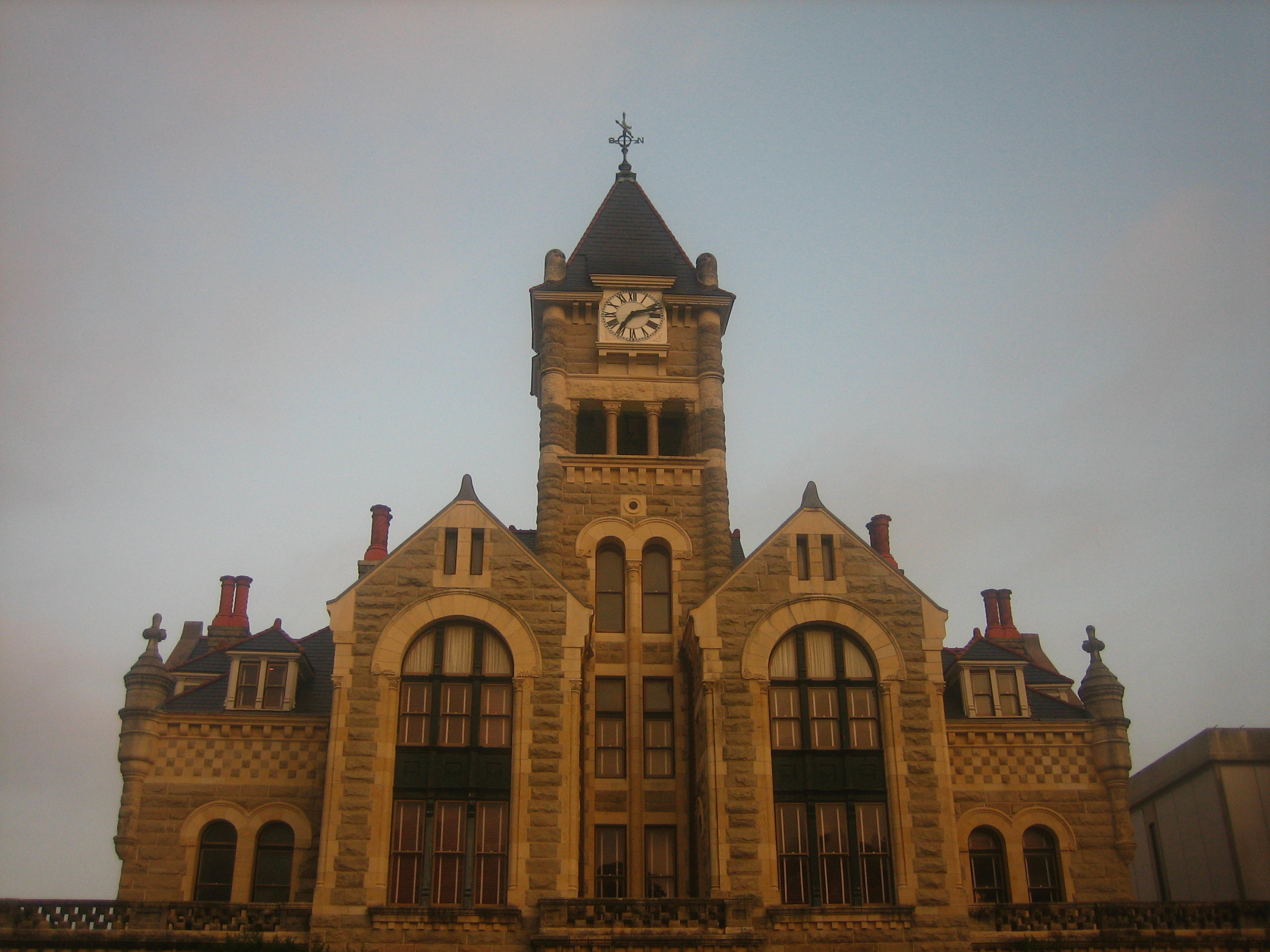 Old Victoria County Courthouse. I took photo on July 31, 2008.Billy Hathorn (talk) 22:17, 17 August 2008 (UTC)